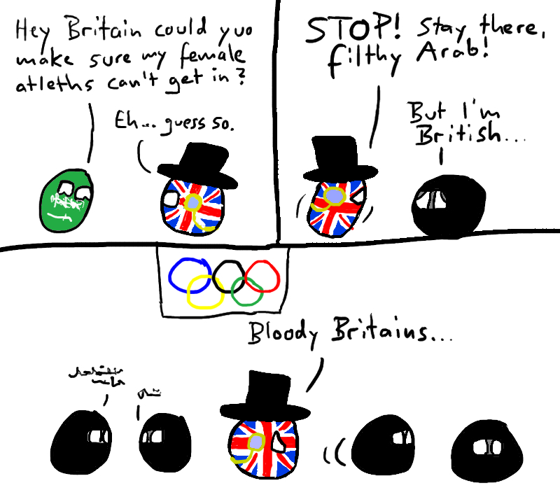 Polandball comic on the news that Saudi women will for the first time be allowed to compete at the Olympics in London.